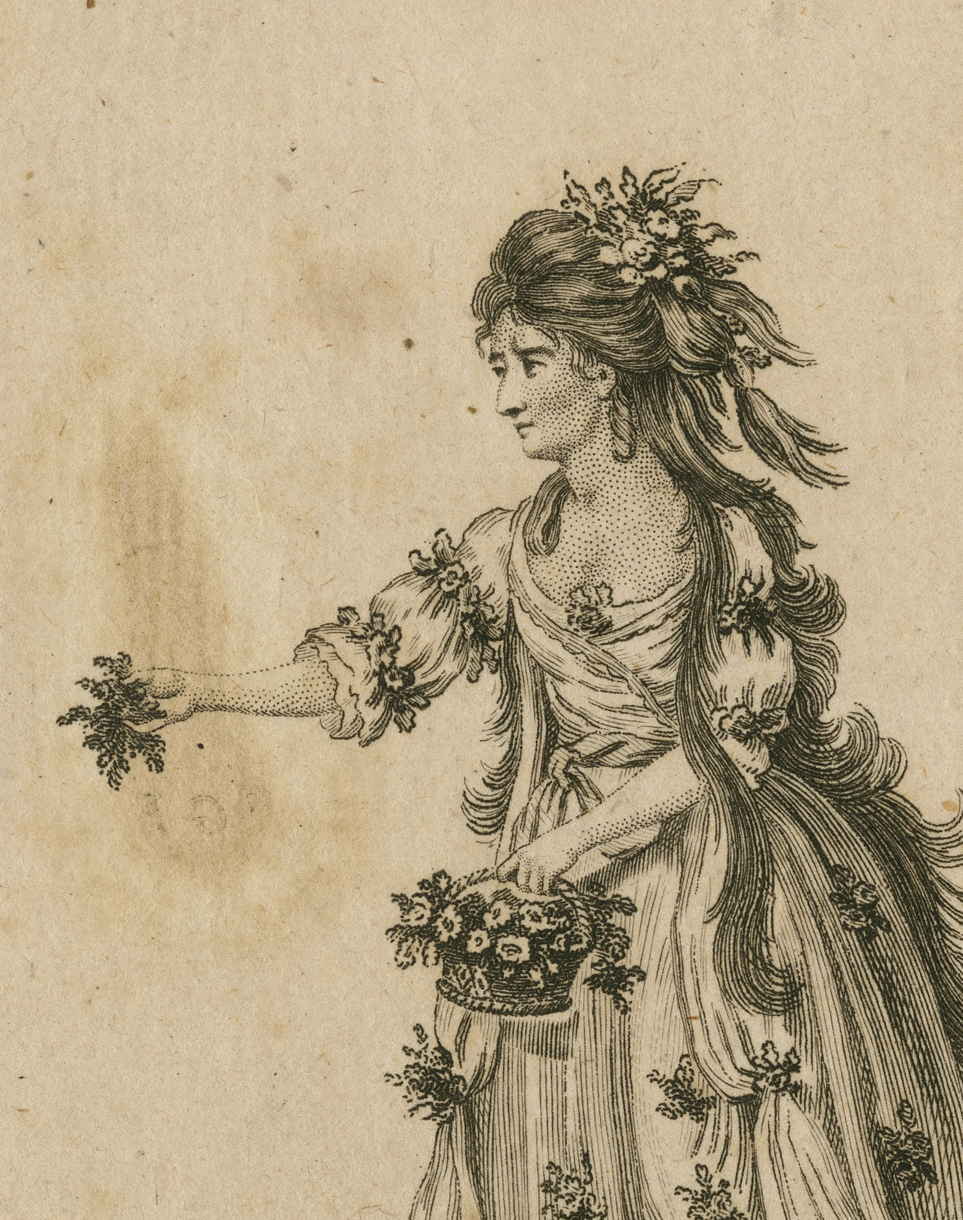 Mrs. Lessingham in the character of Ophelia from Hamlet. Inscription" "There's rue for you ... / J. Roberts, ad vivam delin. ; C. Grignion, sculp"